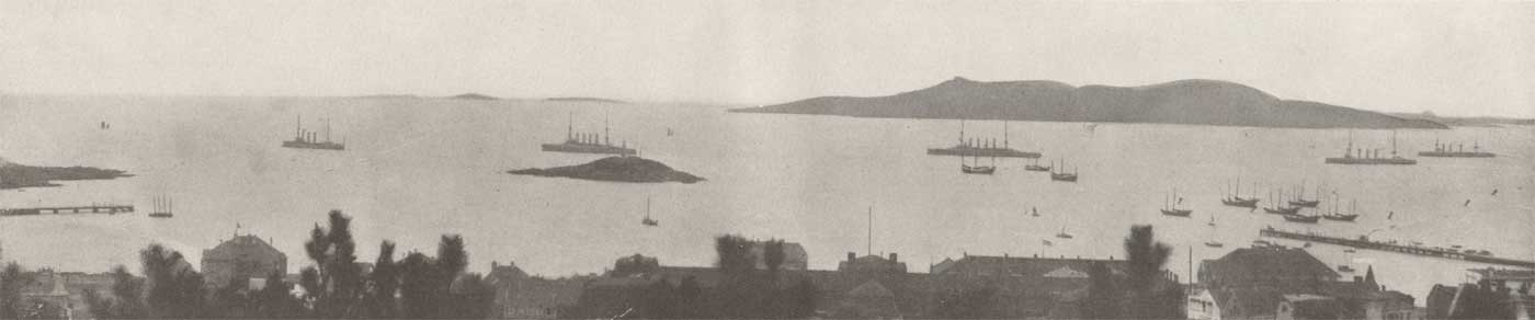 The German far eastern squadron in Kiau-Chau Bay